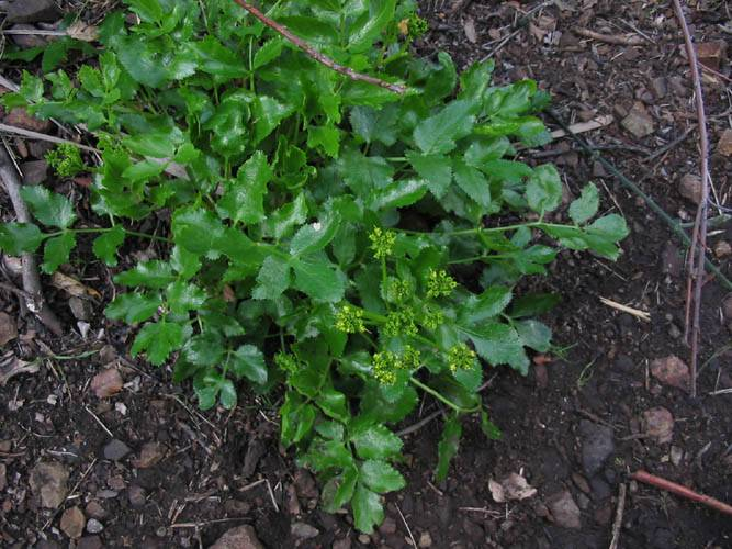 Tauschia arguta at Circle X Ranch: Grotto trail, Santa Monica Mountains National Recreation Area, California, USA.